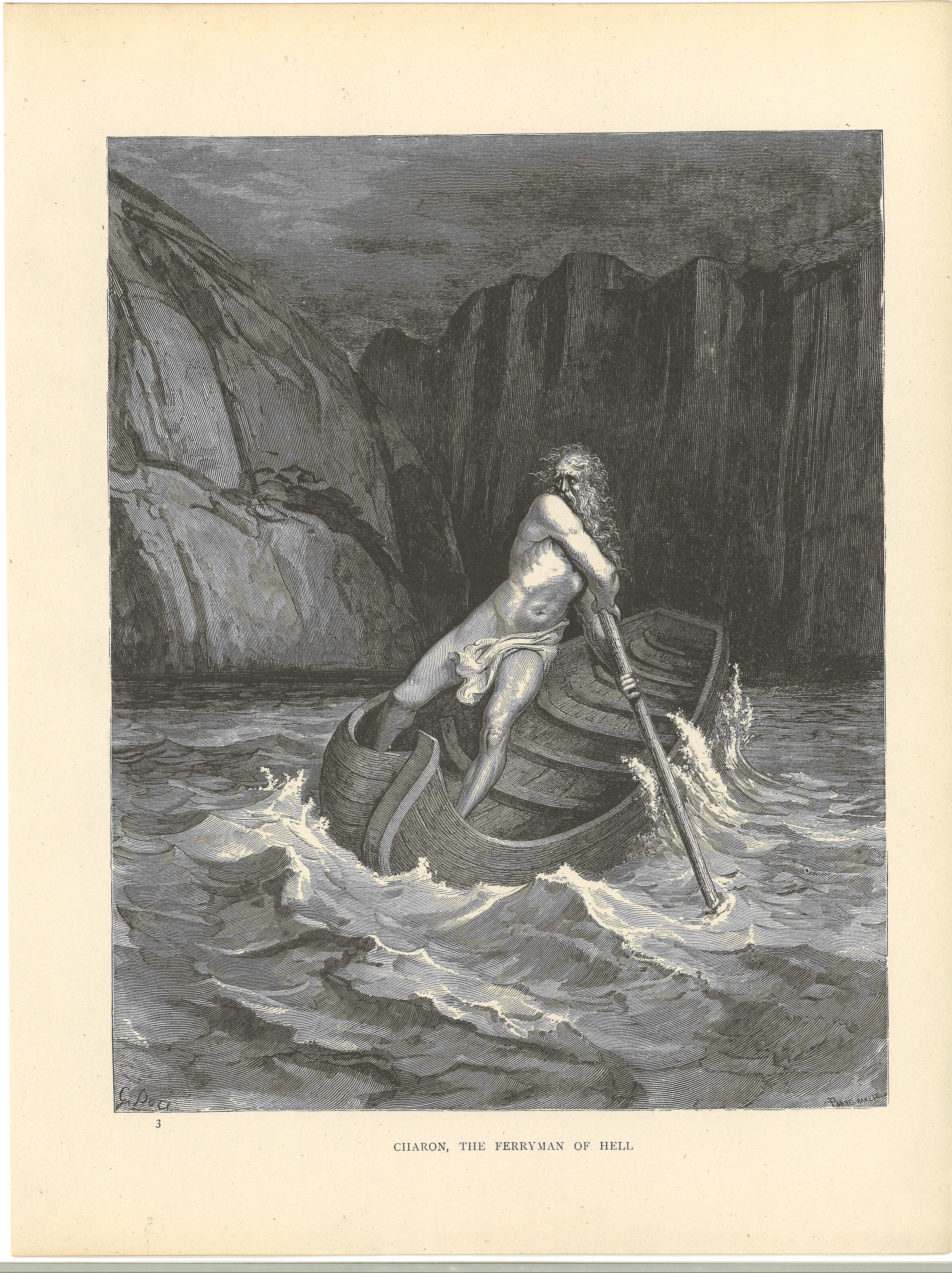 This is one of the original prints, scanned at 600dpi, it depicts Charon from the Divine Comedy, made by Gustave Dore